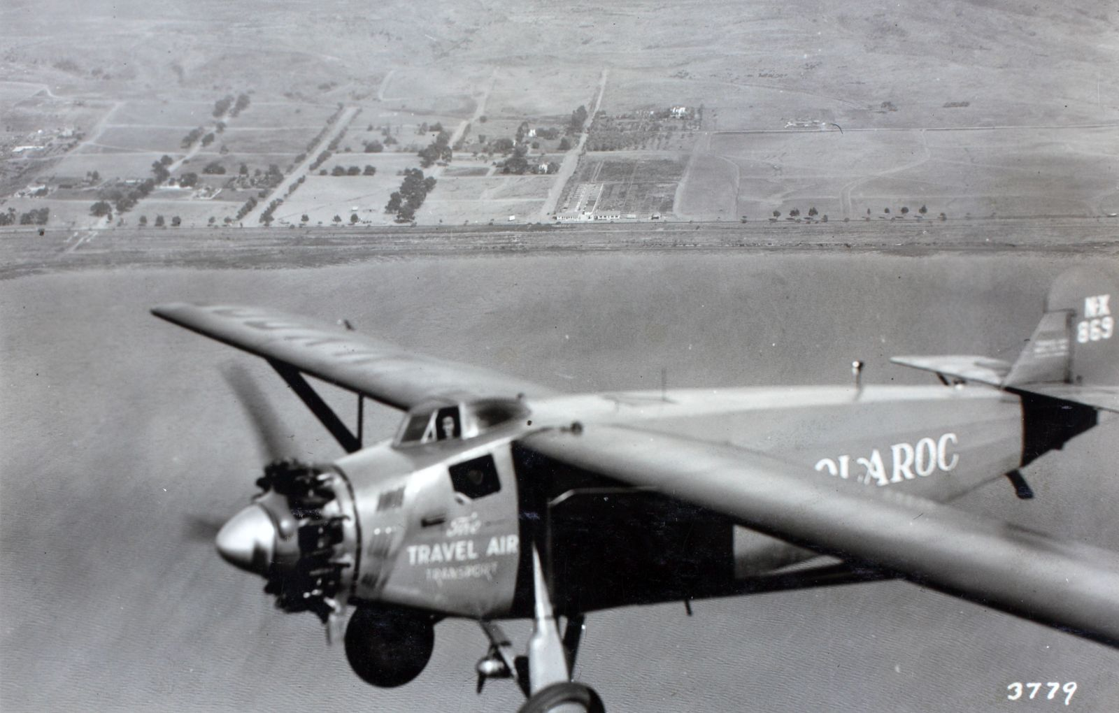 Travel Air 5000 Woolaroc NX869, winner of ill-fated Dole race in flight